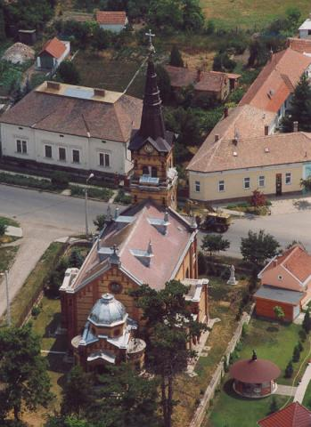 Gyoma in Gyomaendrőd, Hungary, aerialphotography, in centar is Sacred Heart church (Jézus Szíve templom).